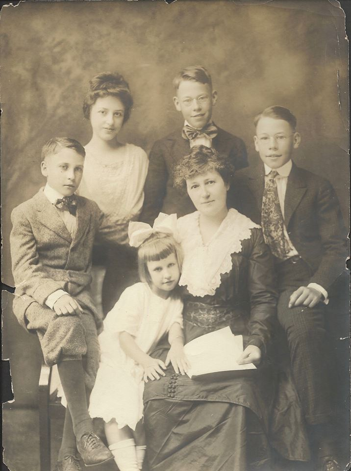 Kate Brew Vaughn and her children. Martha is at the back, then there are the twins Bill and Pet, Ed is on the left and right up front Tatty. Nashville December 1915.